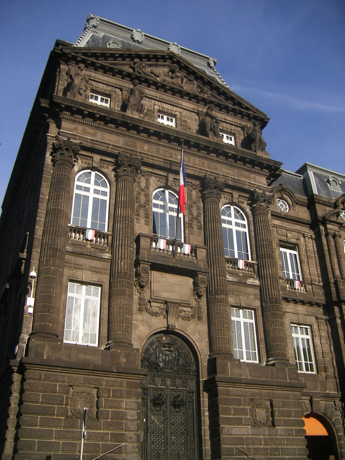 Clermont-Ferrand - old prefecture